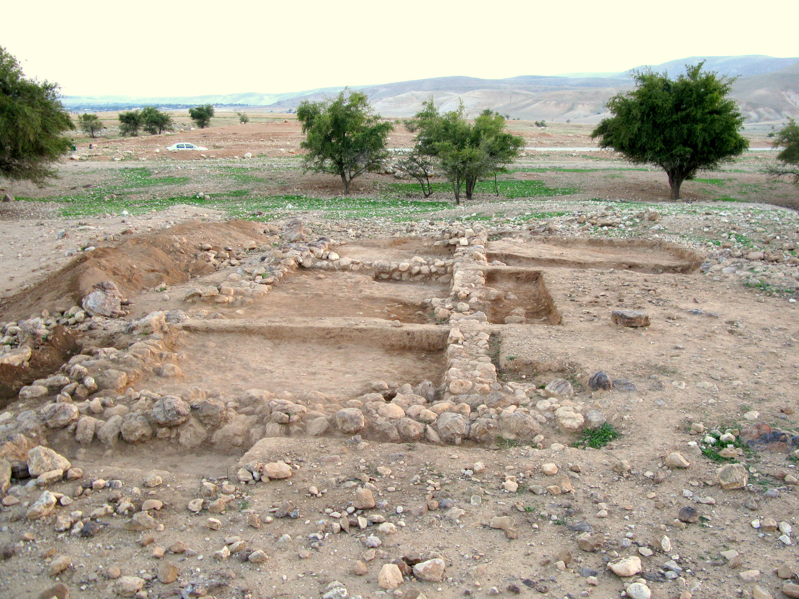 Fatzael 2 - Chalcolithic Archaeological site in Jordan Valley פצאל 2 - אתר ארכאולוגי מהתקופה הכלקוליתית - האתר שוכן בבקעת הירדן ליד היישוב פצאל This work is free and may be used by anyone for any purpose. If you wish to use this content, you do not need to request permission as long as you follow any licensing requirements mentioned on this page.